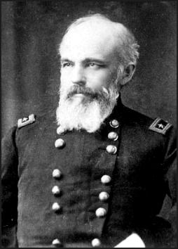 photo of George J. Stannard (1820-1886)